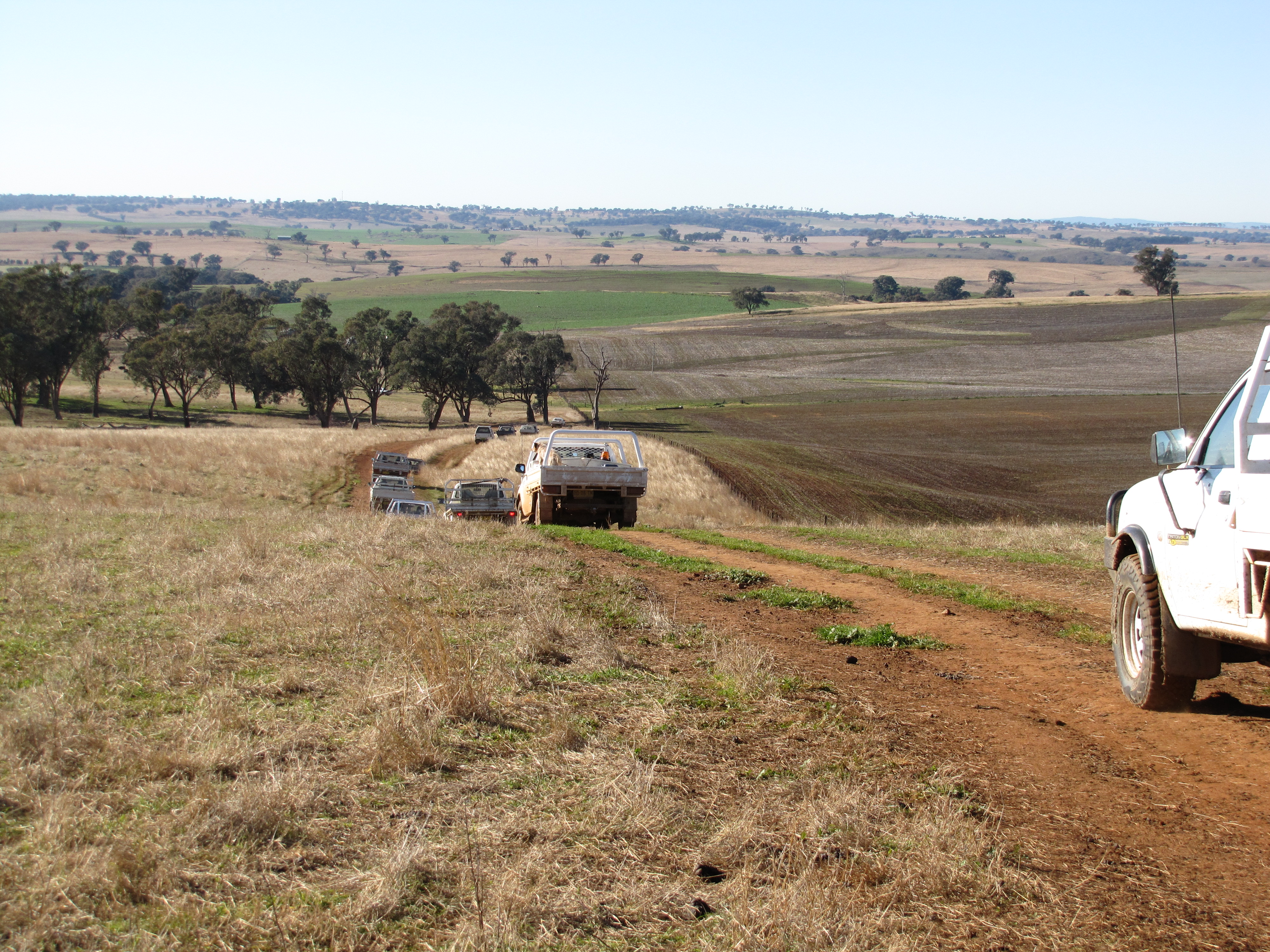 Landscape somewhere near Cumnock, New South Wales, Australia. Original caption: Little River Landcare group is undertaking a Machinery Conversion for Increased Soil Carbon project. This is a photo from a field day to four farms in the Cumnock area of central-west New South Wales. This project is supported by the Little River Landcare Group Inc., through funding from the Australian Government's Caring for our Country.